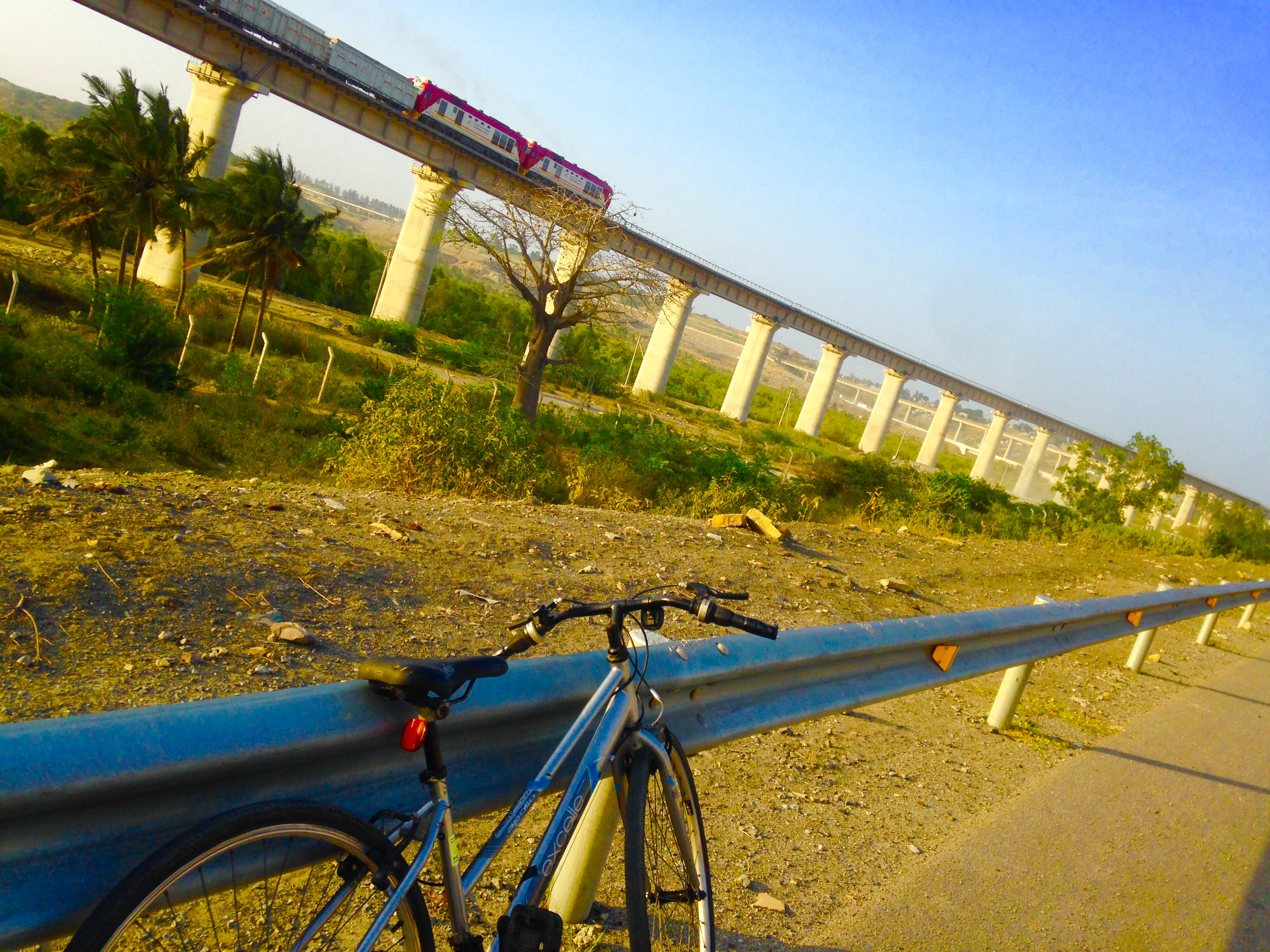 This is an image with the theme "Play" from: Kenya